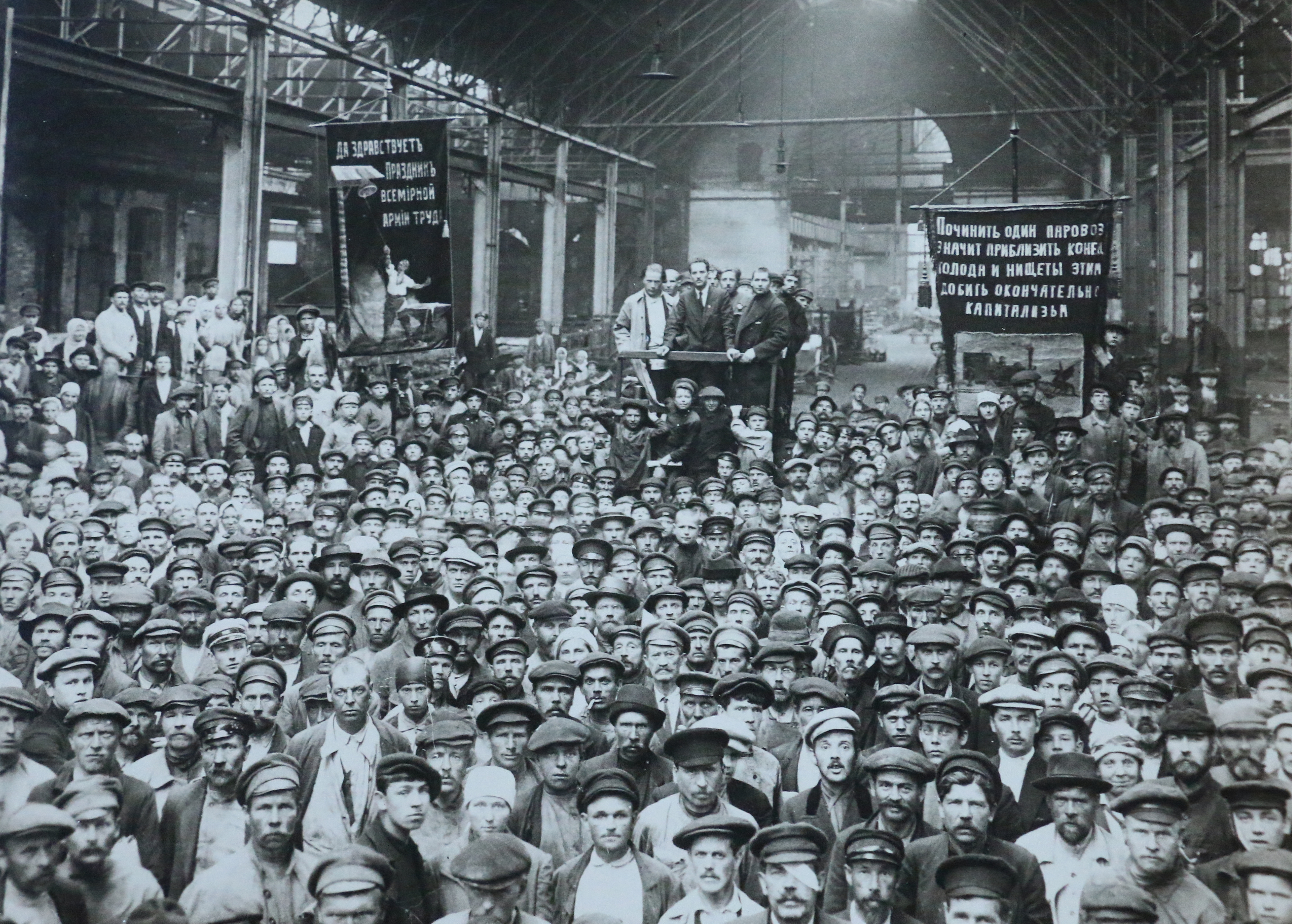 Boris Souvarine Papers - Soviet Russia Photos Notes: The back of this picture holds the mention (in Russian and French) "New elections to the Petrograd soviet at the Putilov factory, after the report by Comrade Glebov-Putilovskii, July 1920"). This legend may designate Nikolaï Glebov-Avilov (1887-1937). A Bolshevik leader arrested during a strike at Putilov factory in 1912, he took a part in the February Revolution, and became and active representative of the Bolsheviks in Petrograd, involved in factories issues. The left banner reads: "Long live the Party of the universal Army of Labour"; one can see a worker ringing a bell. The right banner reads: "To create a locomotive means to bring close to the end hanger and misery, as well as to give a final blow to capitalism". Unknown photographer. Description: 1 photograph. Black and white ; 11 x 15 cm. Sources and further reading: Siegelbaum, Lewis H. 1992. Soviet State and Society between Revolutions, 1918-1929. Cambridge: Cambridge University Press.